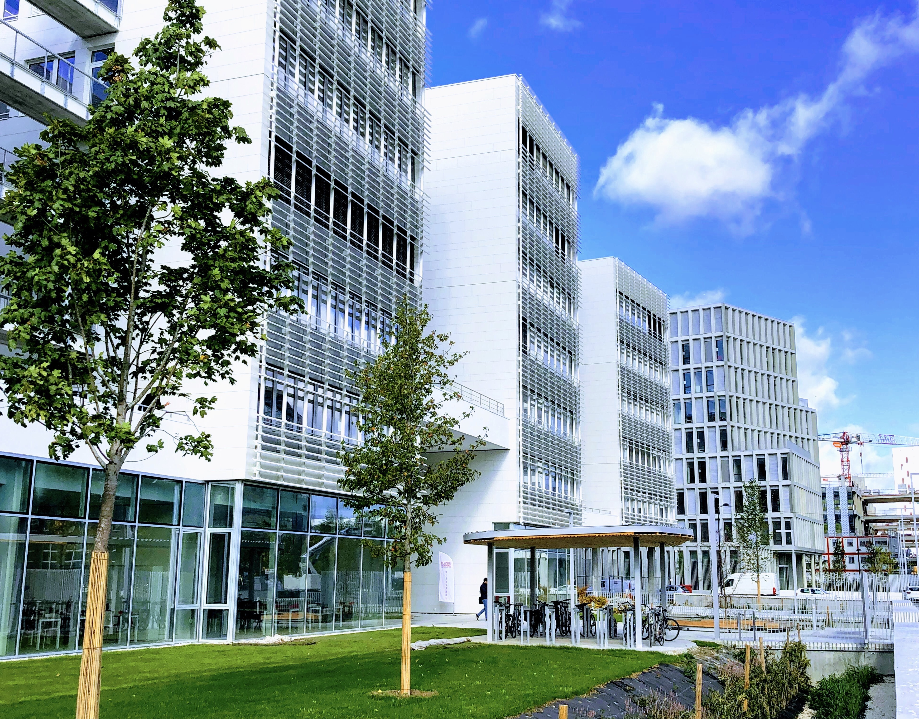 Research Building (South) at Campus Condorcet, seat of the Institute of Latin American Studies of Paris.